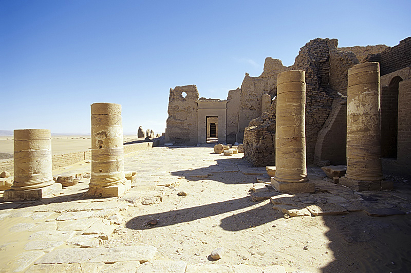 First court of the Temple of Isis and Serapis, Qasr Dush, el-Kharga depression, Libyan desert, Egypt